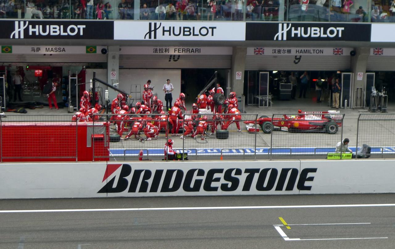 Queuing Ferrari at the Shanghai F1